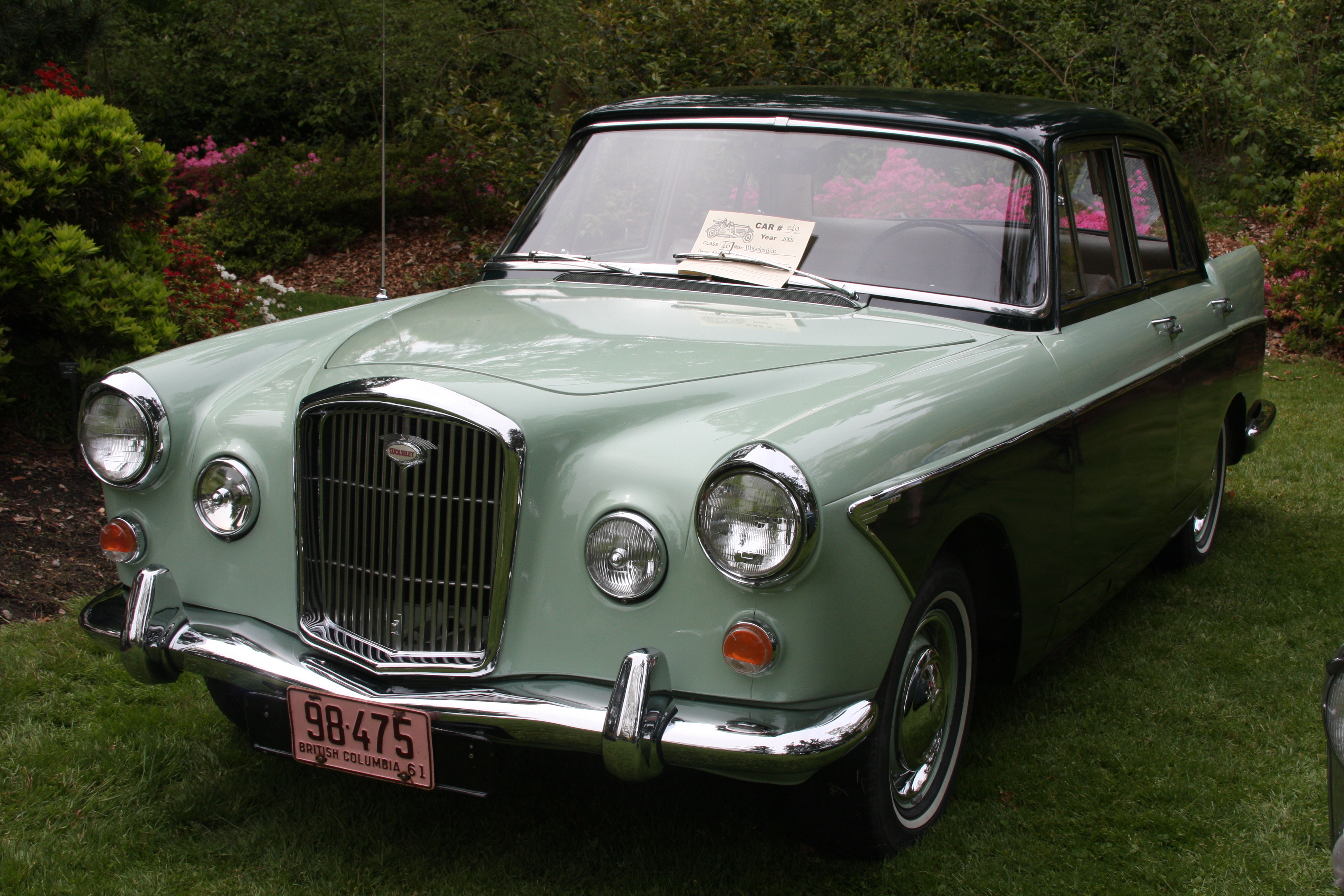 1961 Wolseley 6-99